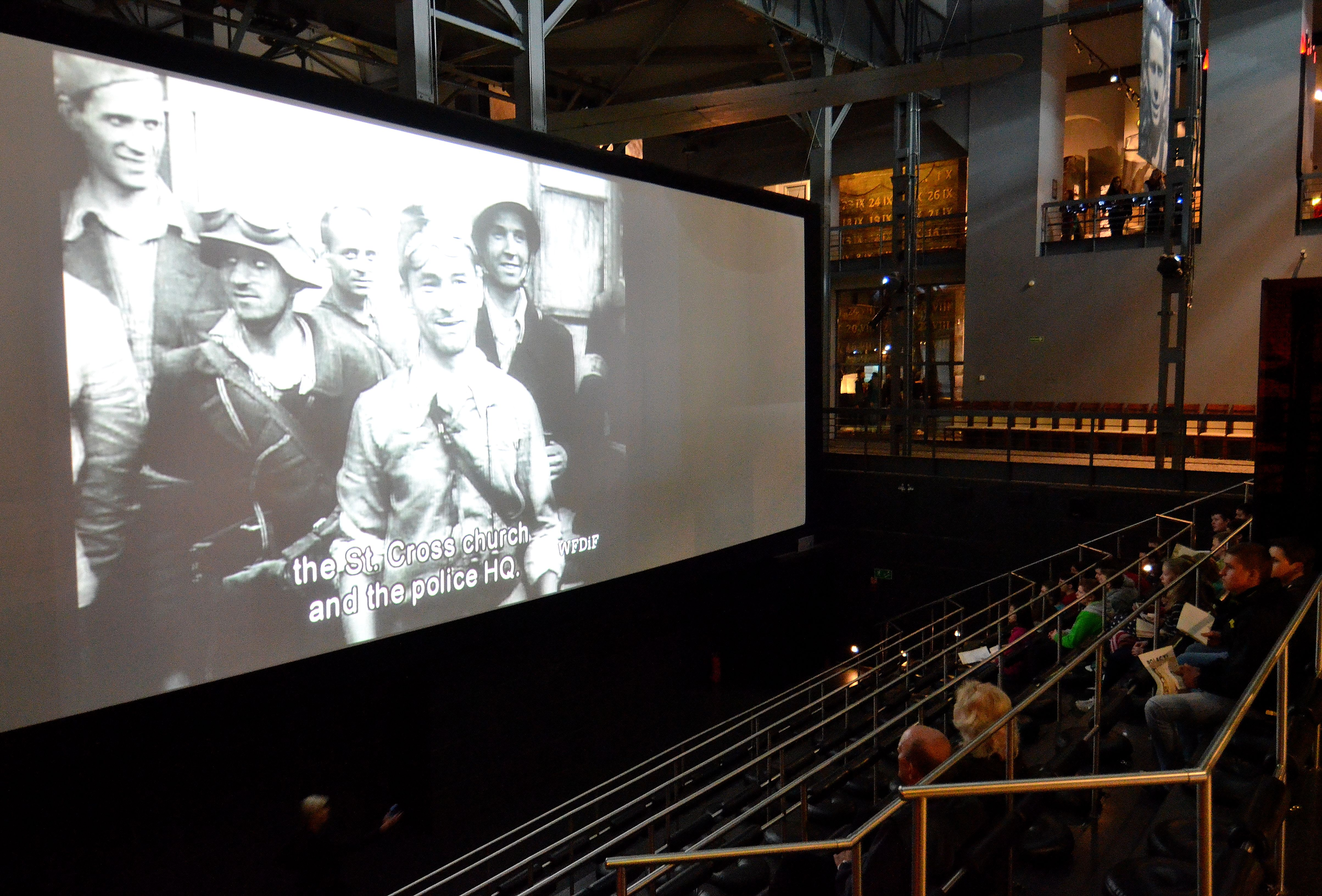 Warsaw Uprising Museum